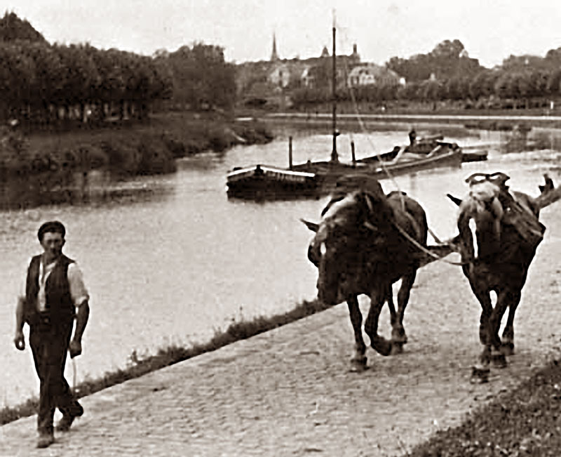 towing with horses at Finowkanal, Germany.